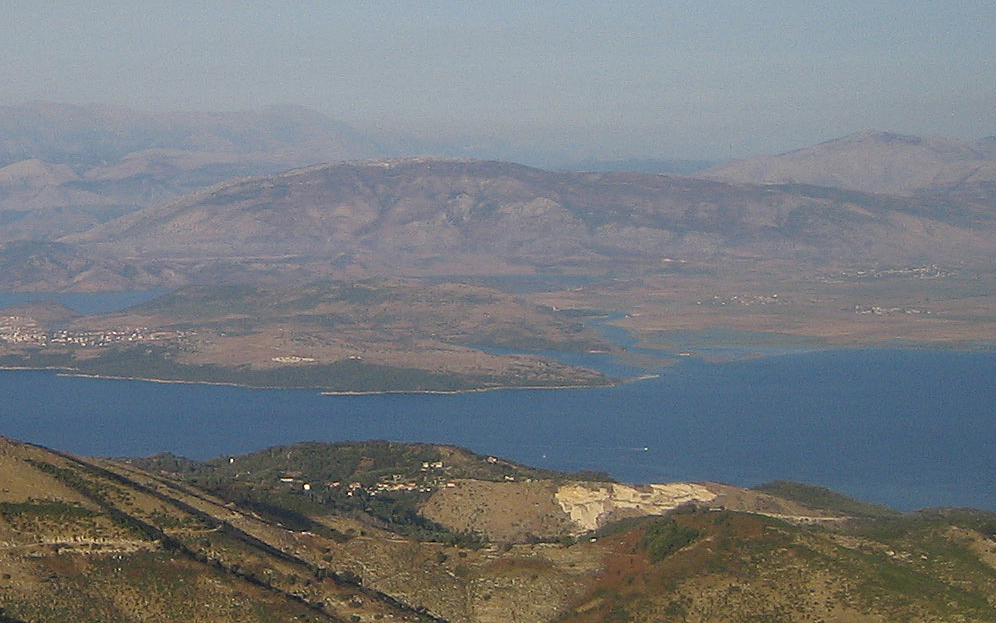 Mount Mile/Mali i Miles in Southern Albania seen from Mount Pantokrator on Corfu Island, Greece. Lake Butrint to the left, Vivari-Channel leading into Corfu Channel in the center of the picture. Taken by Joolz in August 2005.